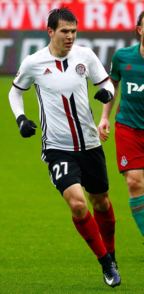 Mikhail Kostyukov with FC Amkar Perm in a game against FC Lokomotiv Moscow.